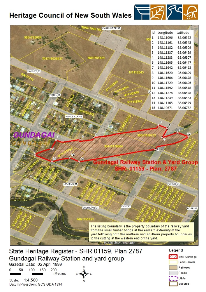 Gundagai railway station: SHR plan No 2787